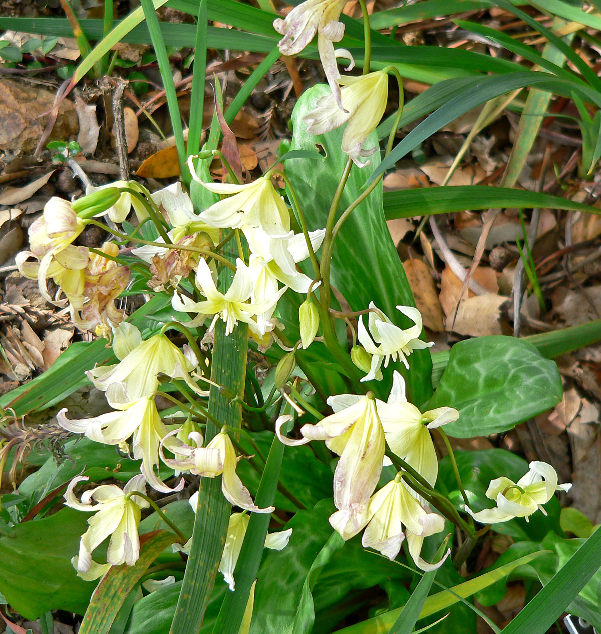 Photo of Erythronium californicum at the Regional Parks Botanic Garden, Berkeley, California